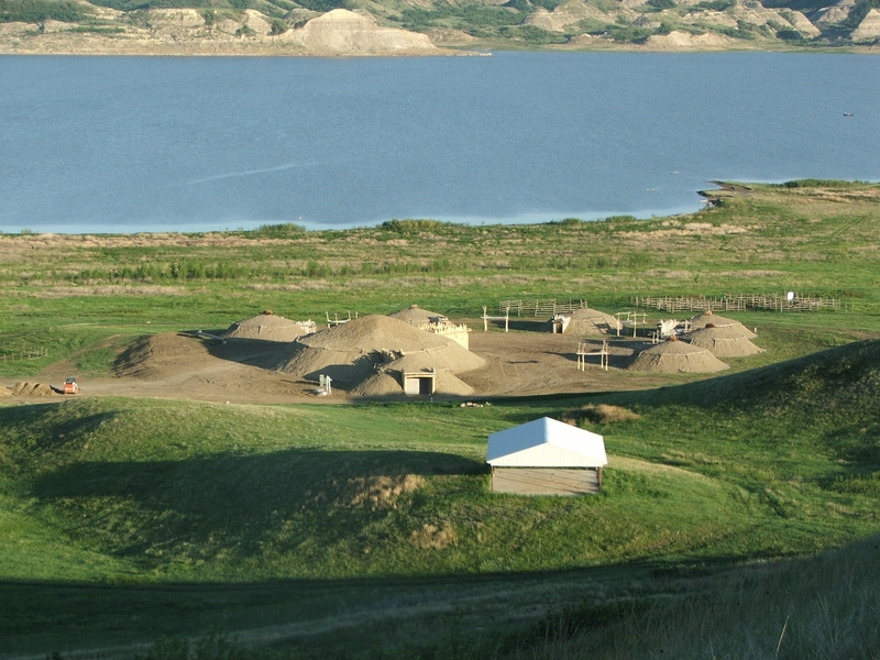 Overview of the entire village.